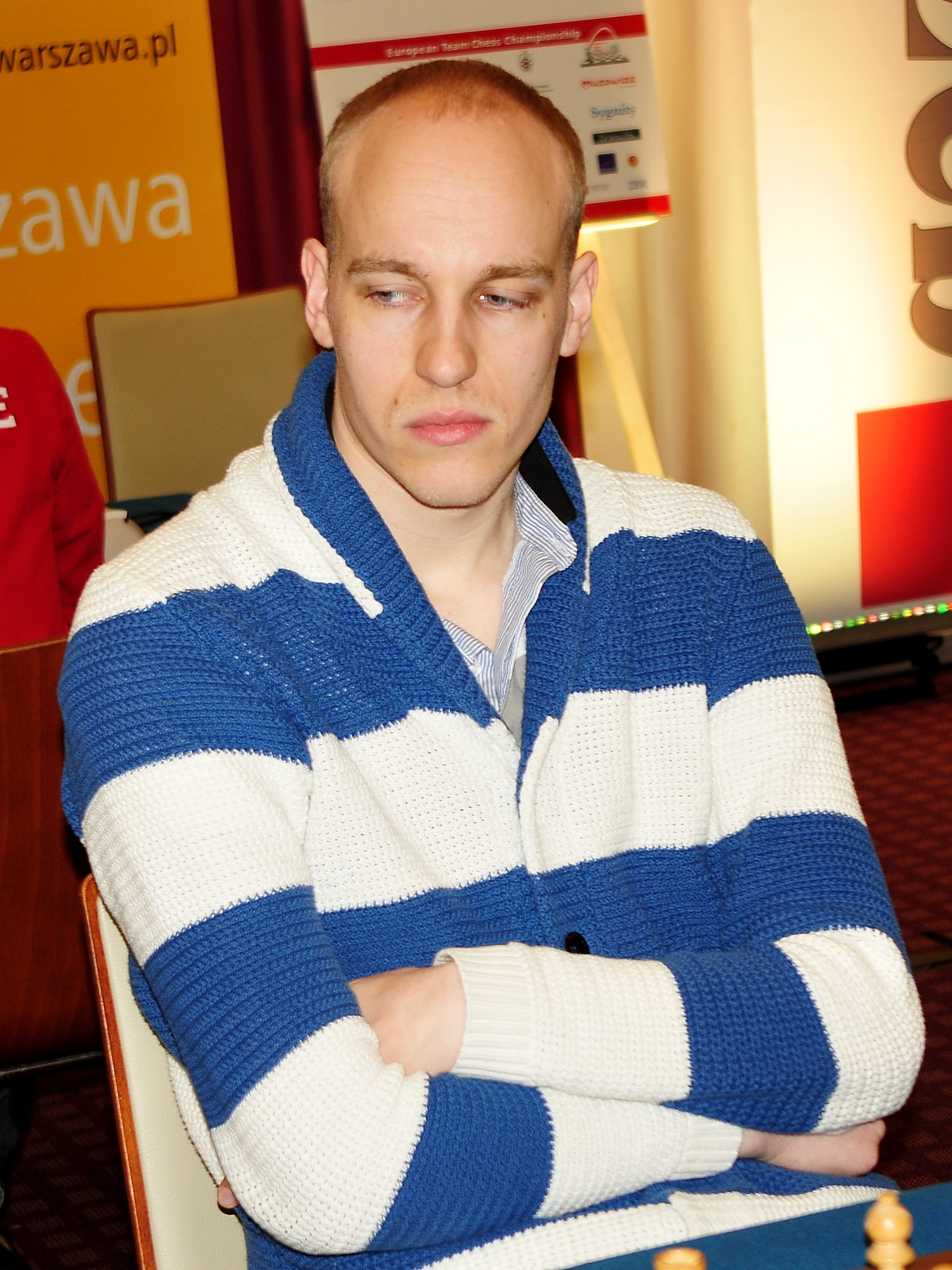 GM Jan Smeets, European Chess Team Championship Warsaw 2013